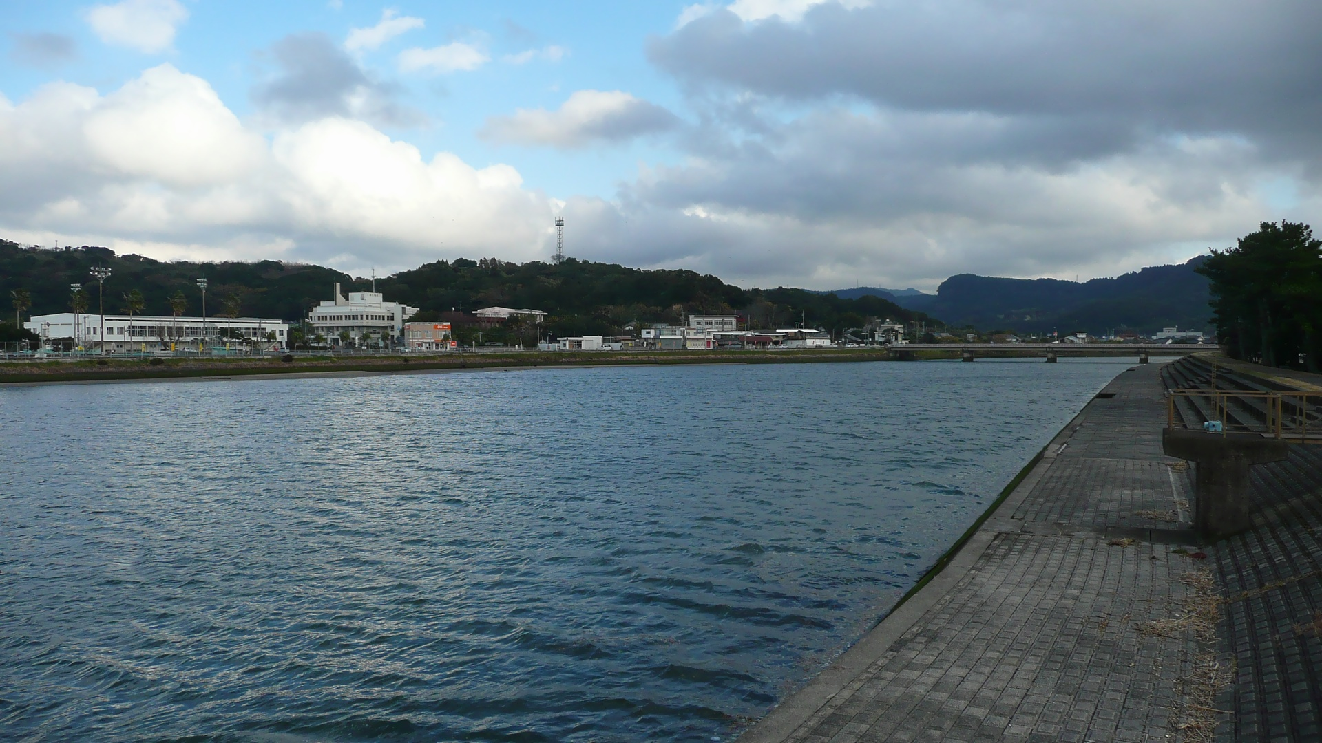 The Ogawa River in Osumi Peninsula, Kyushu Island (Minamiosumi Town, Kagoshima Prefecture, Japan)